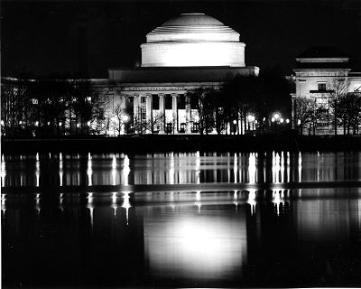 MIT's great dome, Photograph taken by Daniel P. B. Smith. Photographed circa 1964, from a location on the banks of the Charles River on the Boston Side, via a time exposure with a 180mm lens on a 35mm camera. Category:Massachusetts Institute of Technology